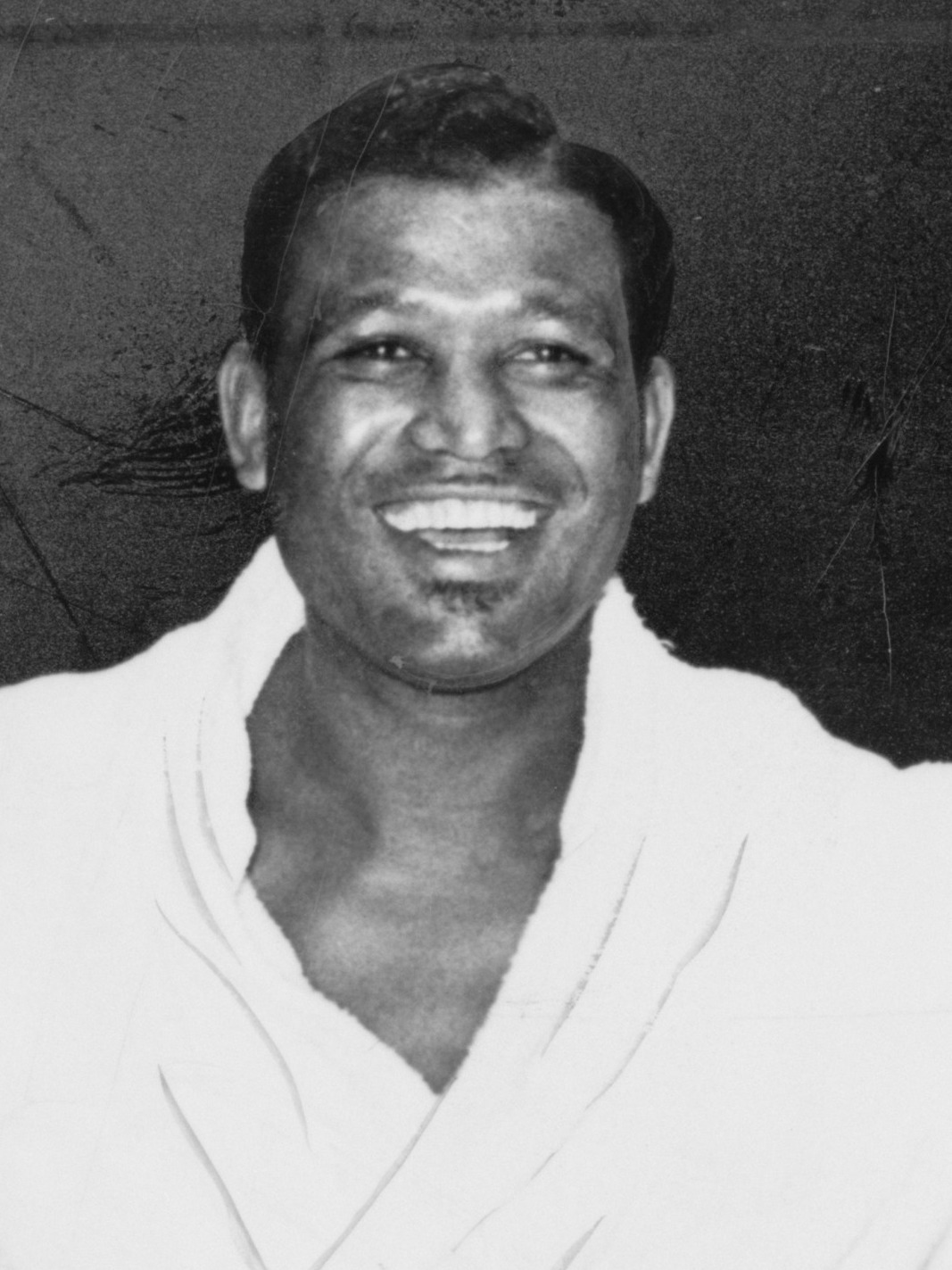 [Cropped version of] American boxer Sugar Ray Robinson (1921-1989) being held aloft by other boxers.